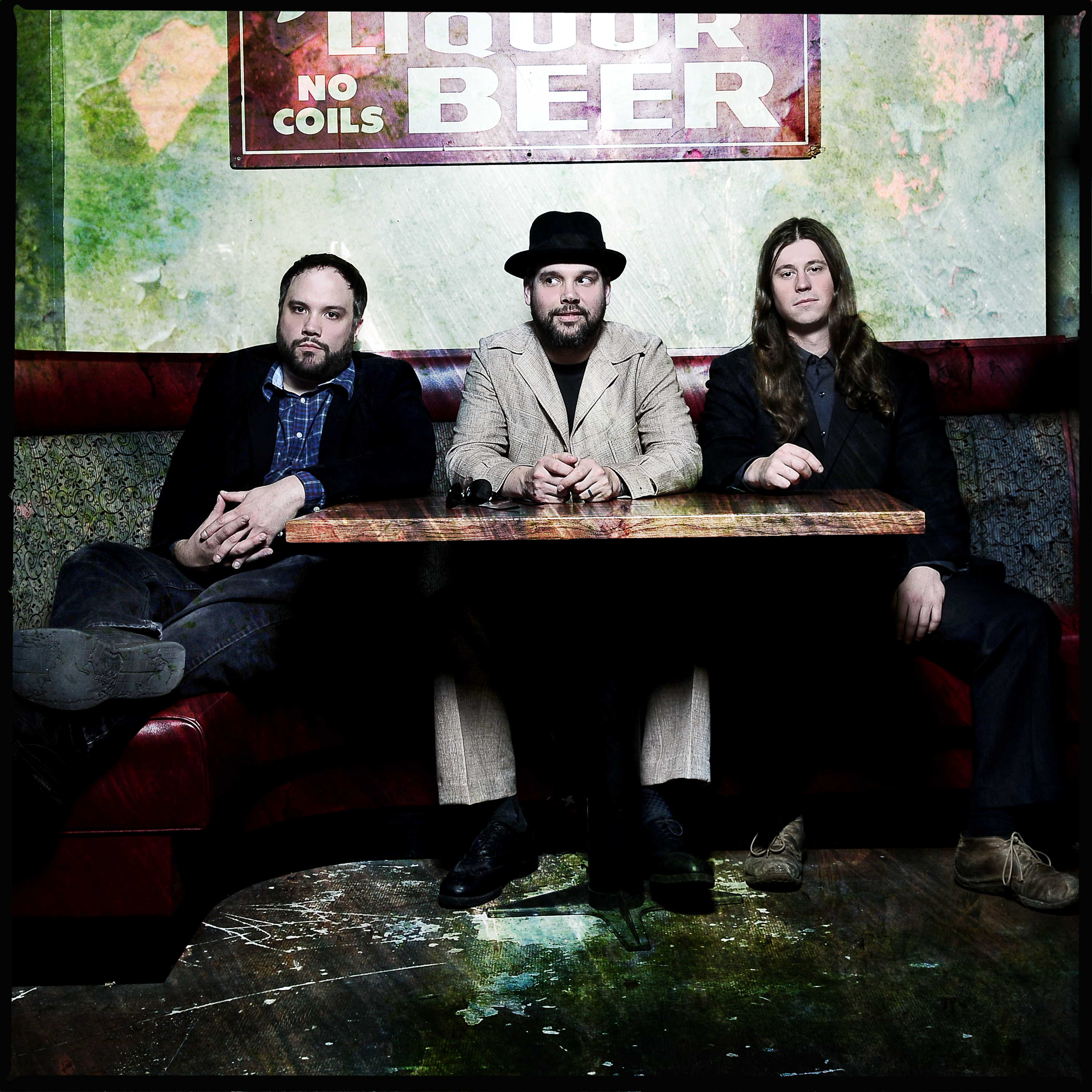 Backyard Tire Fire Promo pic2